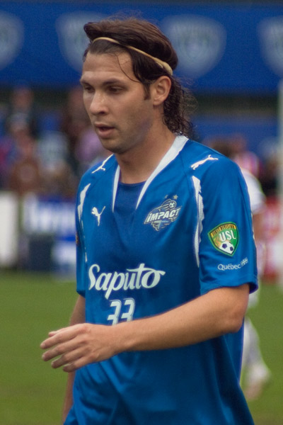 photo of soccer player, Adam Braz